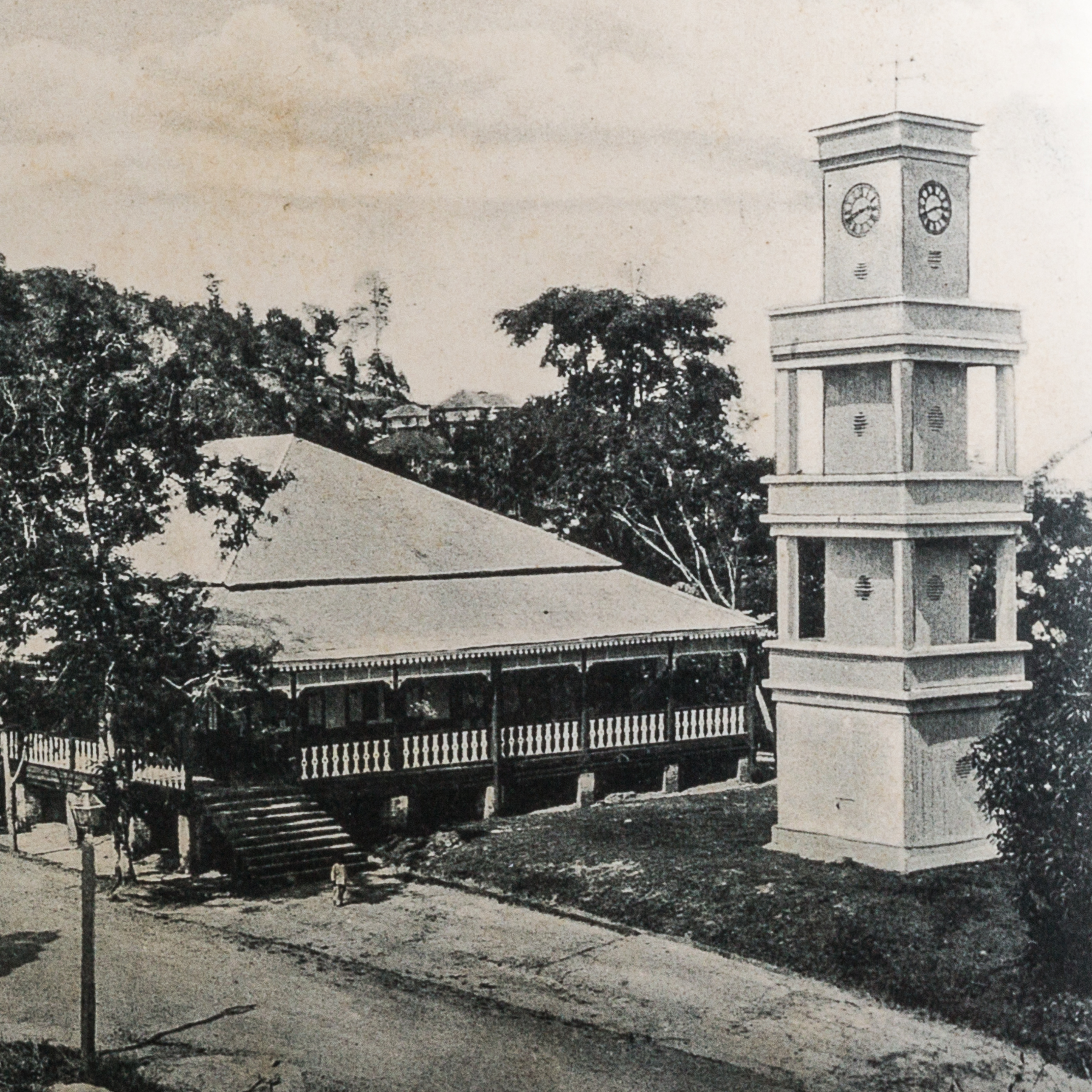 Sandakan, Jubilee Clock Tower and Government Offices, c. 1920. Slightly retouched to soften a crease.